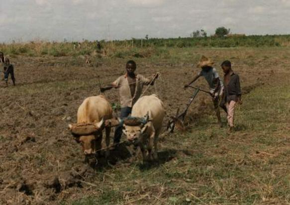 Ploughing with oxen, Rolako, Bombali district, Sierra Leone